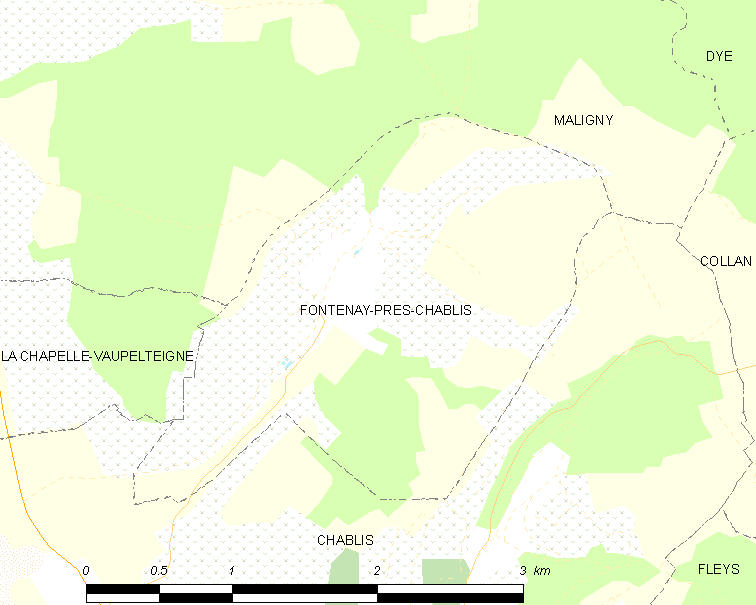 Map of French municipality Fontenay-près-Chablis